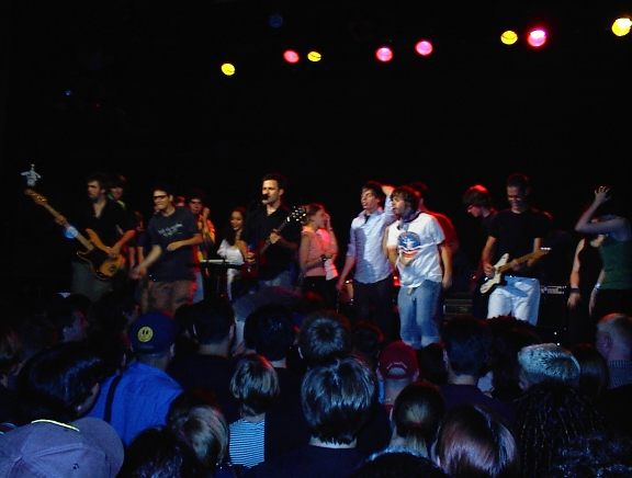 Description: The Dismemberment Plan performs "The Ice of Boston" at the Bowery Ballroom Source: Photograph taken and uploaded by User:Mstyne Date: July 23, en:2003